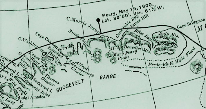 Roosevelt Range section of map published by Robert Peary in 1903